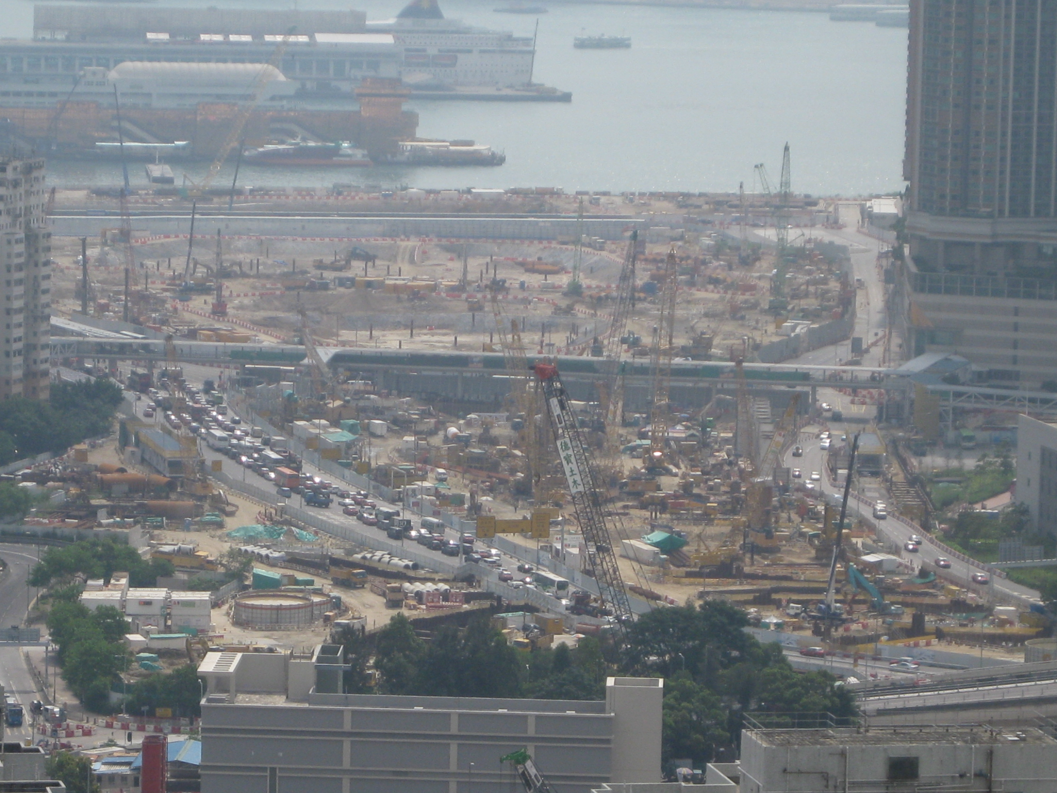 West Kowloon Terminus Construction Site overview in October 2011